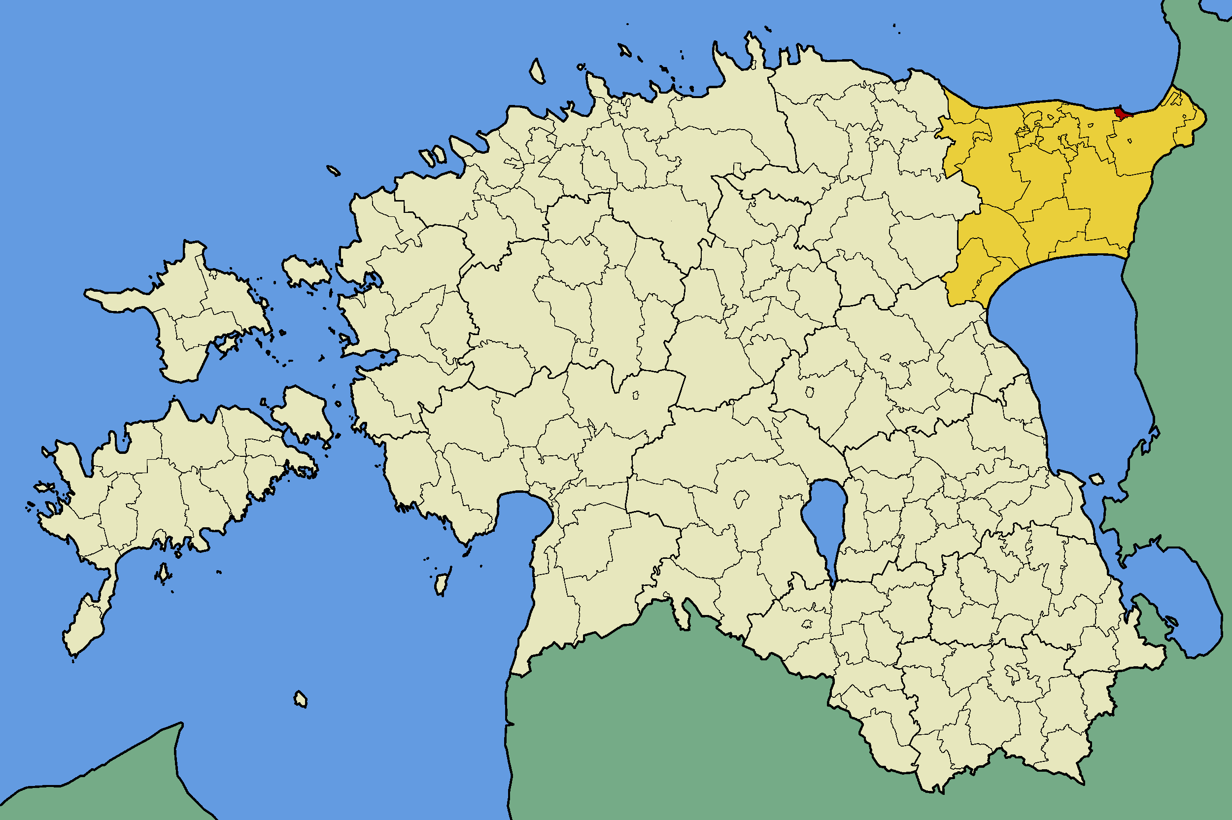 Map of Estonia with borders of municipalities (parishes). Ida-Viru county and Sillamäe town municipality emphasized.